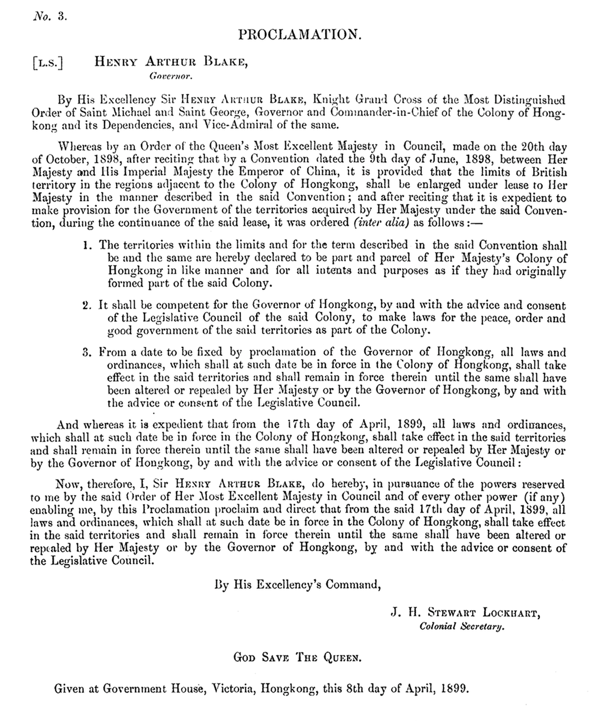 The proclamation of the New Territories of Hong Kong by Colonial Secretary Lockhart 粵語: 輔政司駱克，香港政府接收新界嘅公告。（此爲英文本）